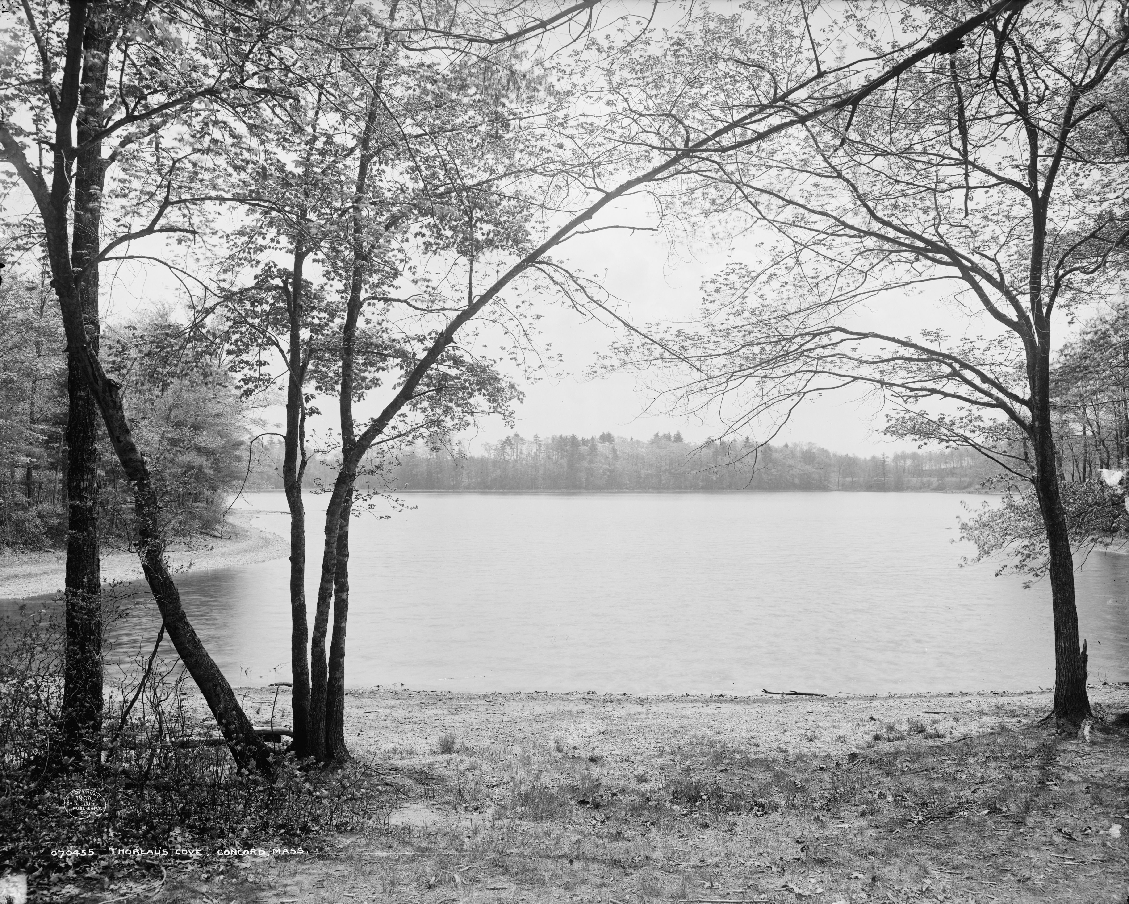 Thoreau's Cove, Concord, Massachusetts. Thoreau, Henry David (1817-1862)--Homes & haunts. Lakes & ponds. United States--Massachusetts--Walden Pond. Dry plate negatives.